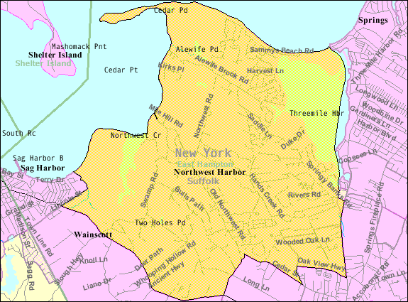 U.S. Census 2000 reference map for Northwest Harbor